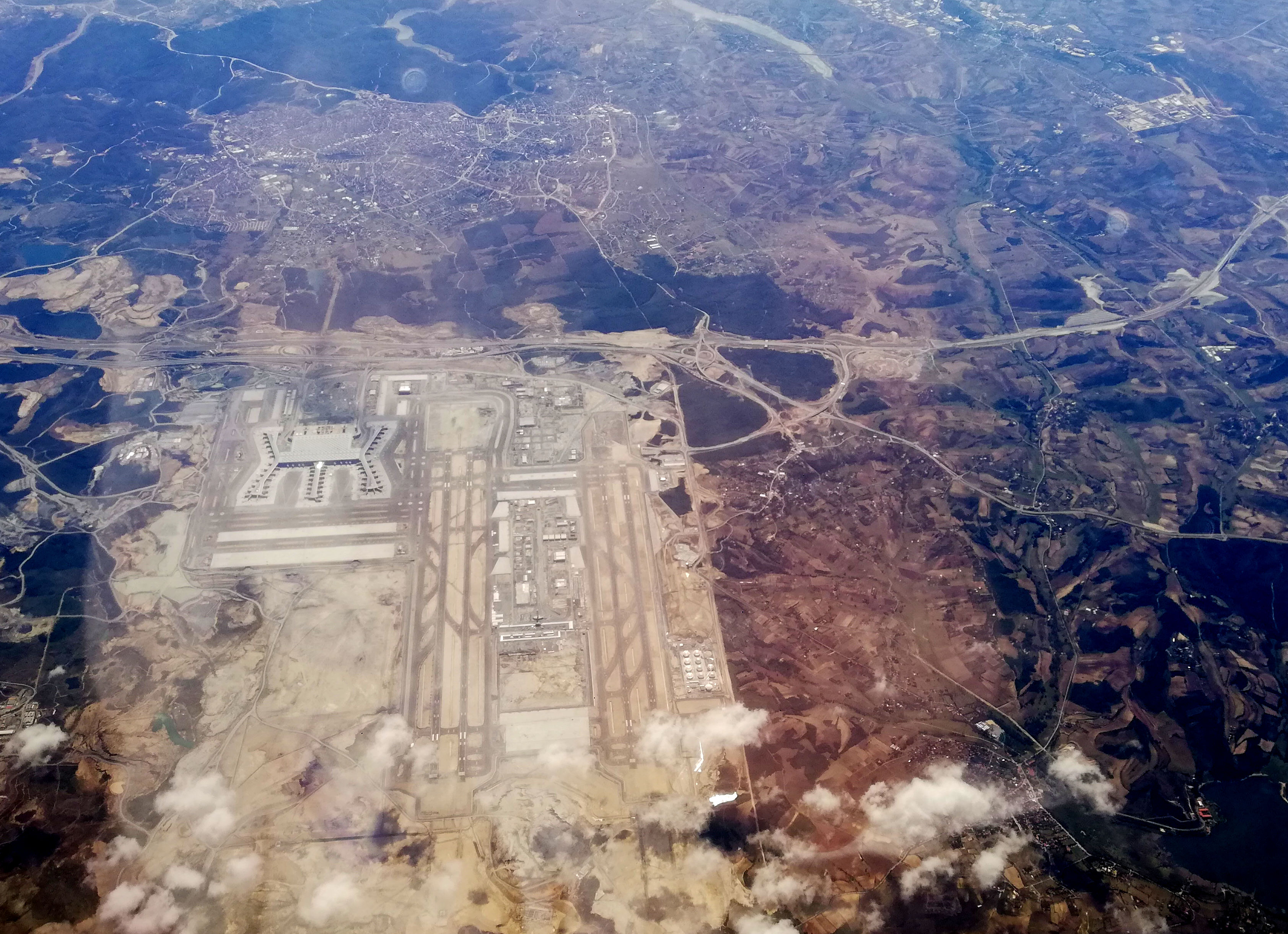 Istanbul New Airport under construction, 23.09.2018